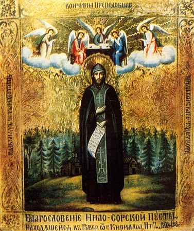 Icon of St Nil Sorsky (1908). (Нил Сорский, Nil Sorsky, ニル・ソルスキー: A leader of the Russian medieval movement opposing ecclesiastic landownership (known as the "Non-possessors")